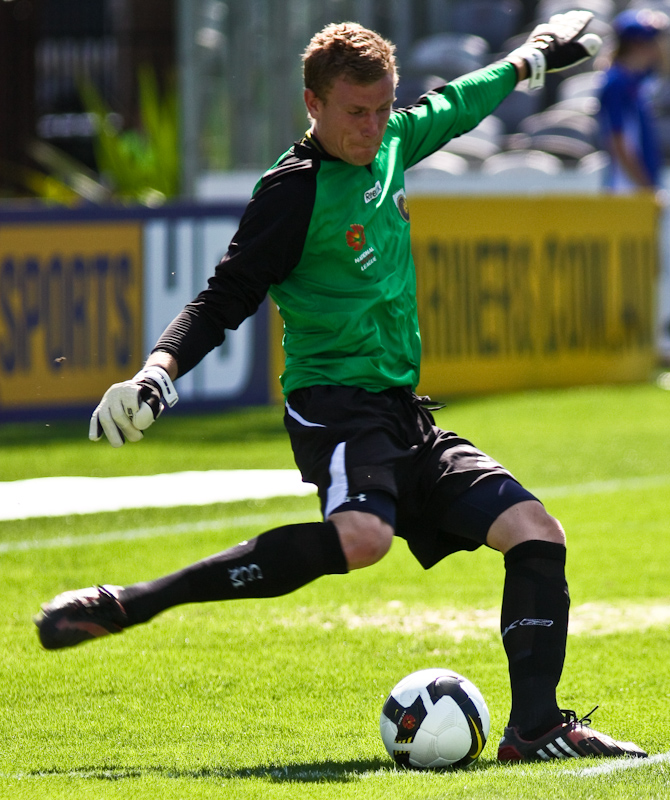 Andrew Redmayne playing for the Central Coast Mariners youth team against Sydney FC youth.